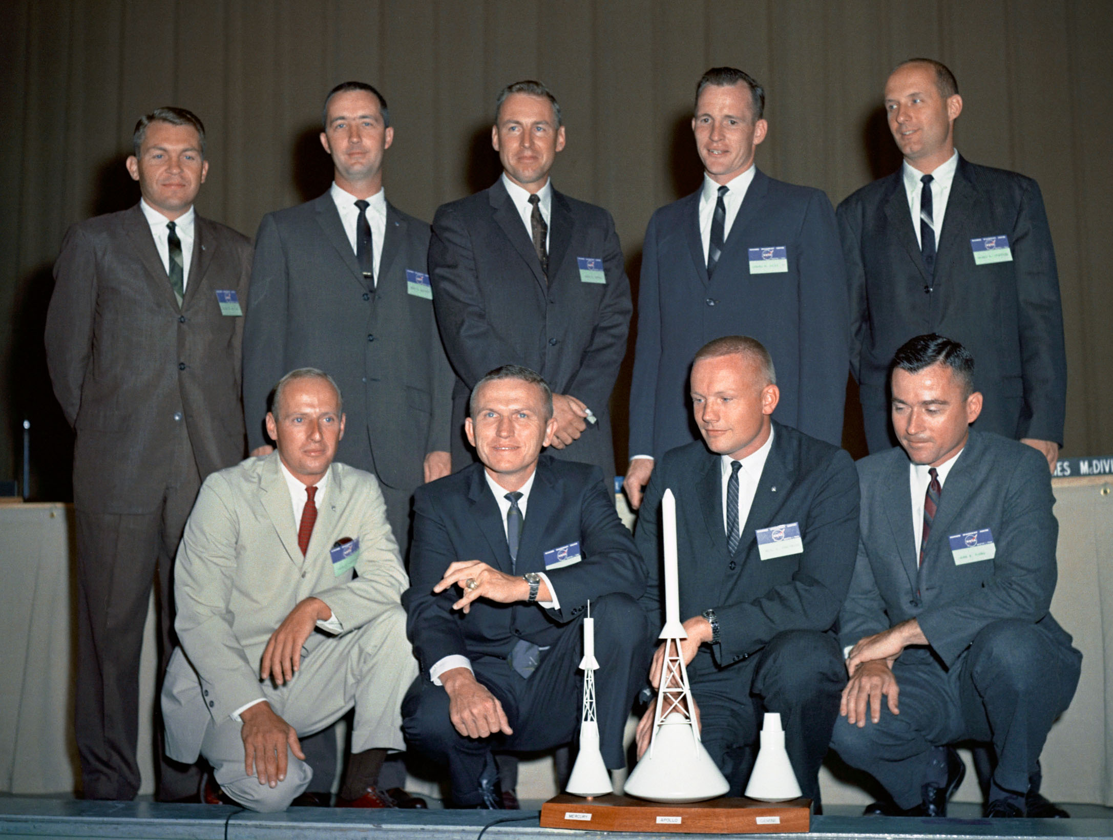 Nine new flight personnel selected by Manned Spacecraft Center, National Aeronautics and Space Administration, in Houston Sept 17, 1962, are front row, left to right, Navy Lt. Charles Conrad, Jr., Air Force Major Frank Borman; NASA Test Pilot Neil Armstrong, and Navy Lt. Cmdr. John W. Young; second row, civilian test pilot Elliott M. See, Jr., Air Force Capt. James A. McDivitt, Navy Lt. Cmdr. James A. Lovell, Jr., Air Force Capt. Edward H. White II, and Air Force Capt. Thomas P. Stafford.